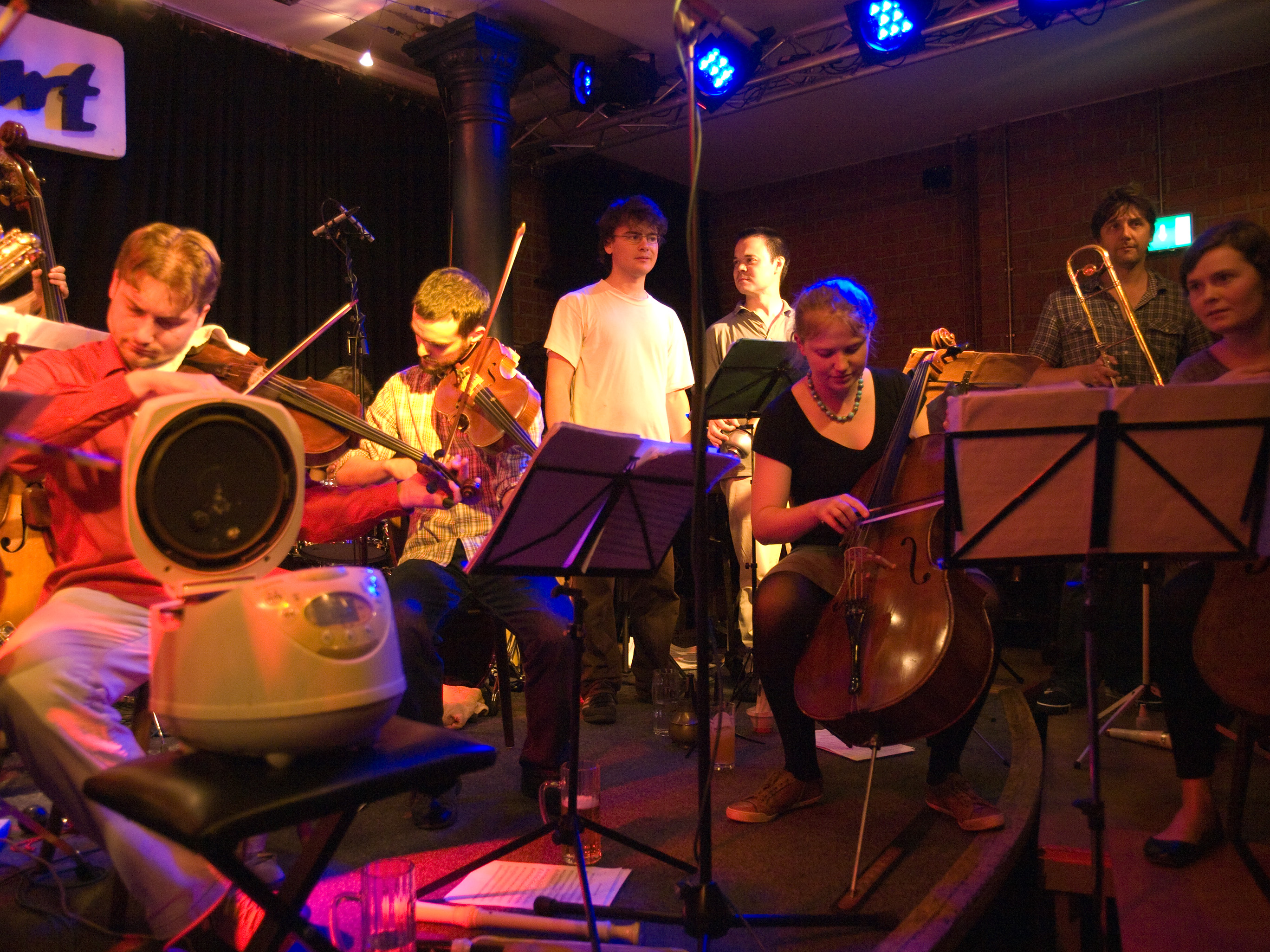 Andromeda Mega Express Orchestra; Picture taken in Jazz Club Unterfahrt, Munich/Bavaria